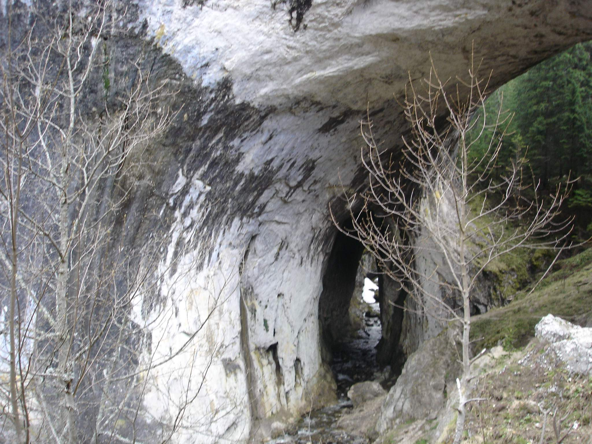 The river under one of the Wonderful bridges, Bulgaria